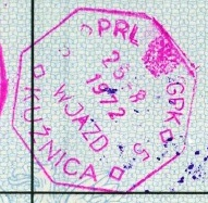 1972 passport stamp from Kuźnica in Podlaskie Voivodeship, Poland. Stamp was entered in a pass for Polish citiziens during communist times, valid for eastern block countries only.